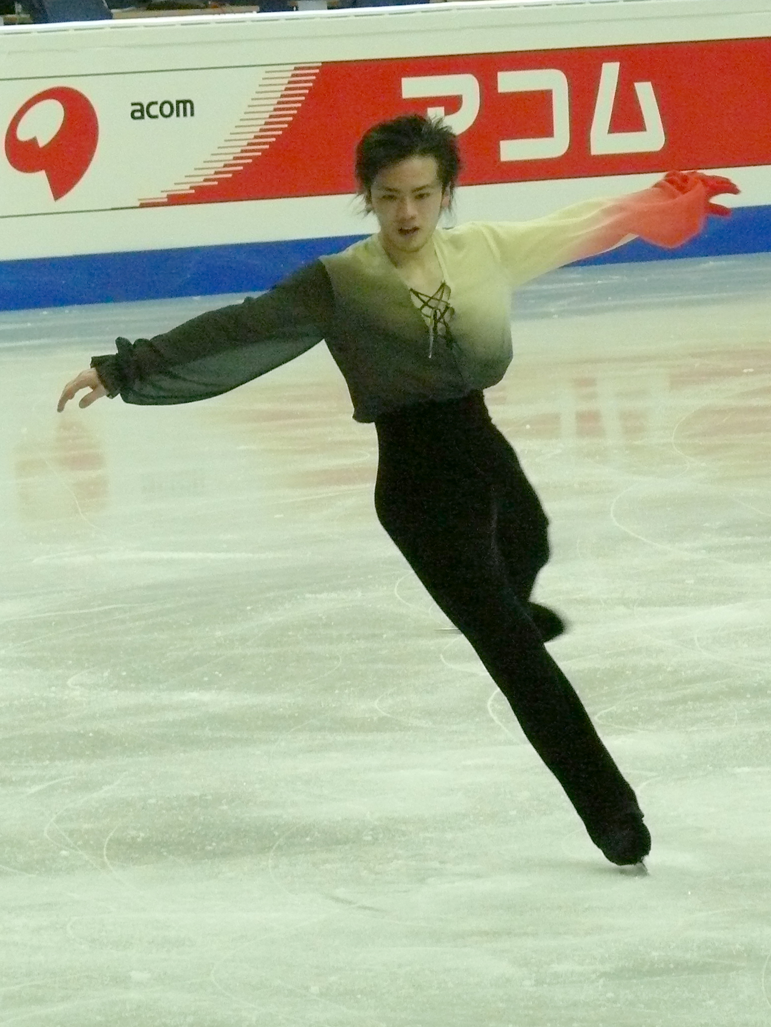 Yasuharu Nanri (JPN) at his free program at the World Championships in Figure Skating 2008 in Göteborg (SWE)